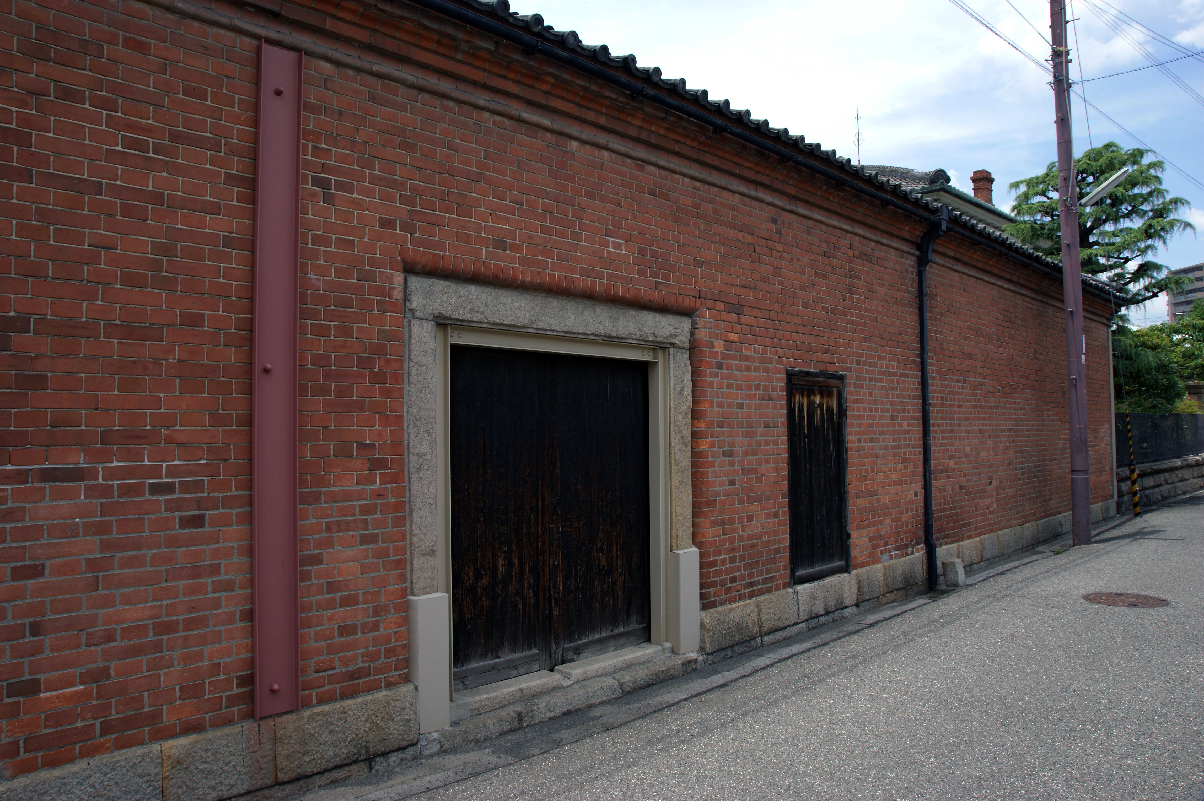 Old Tatsuuma Kijuro Residence in Nishinomiya, Hyogo prefecture, Japan